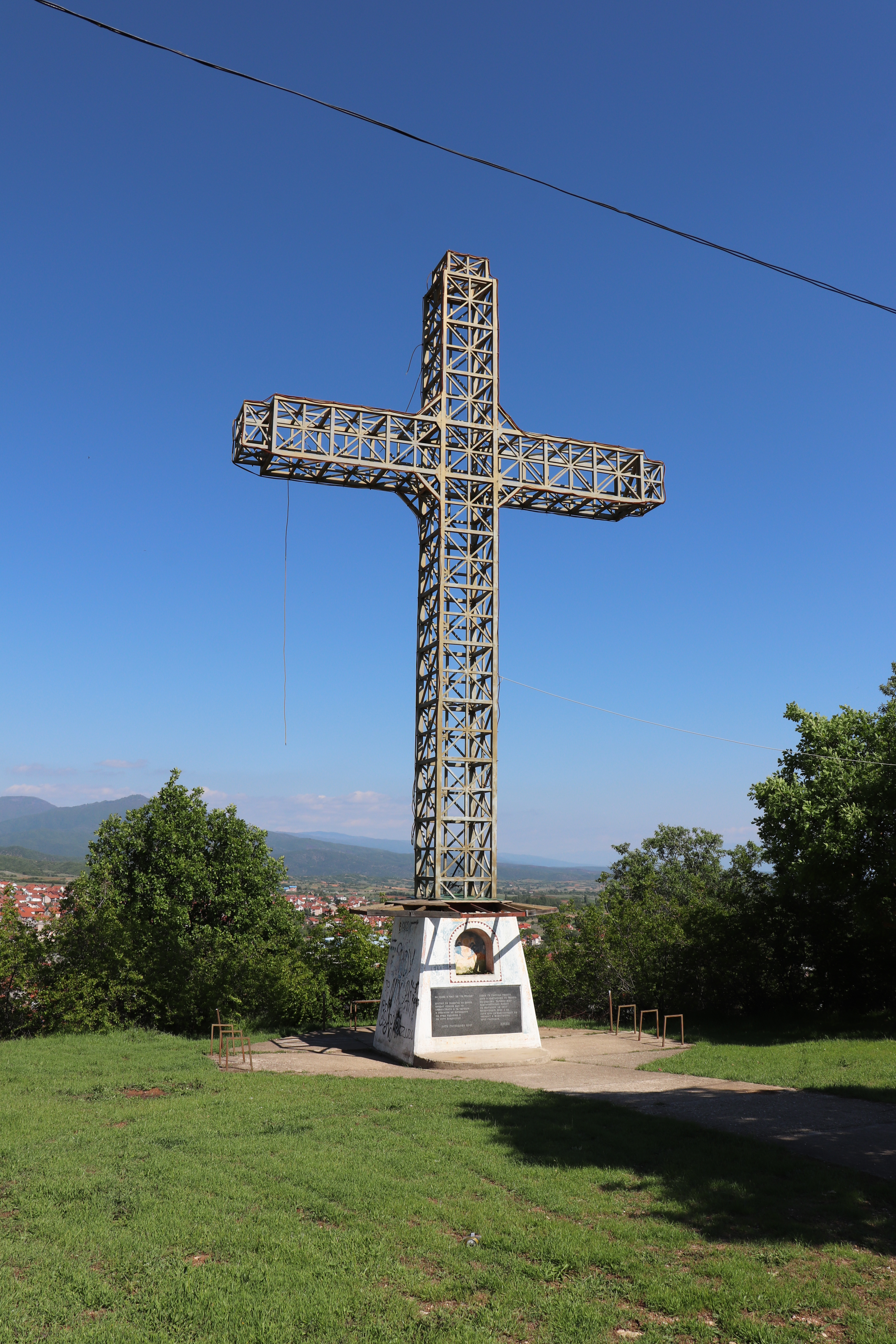 Radovish Cross